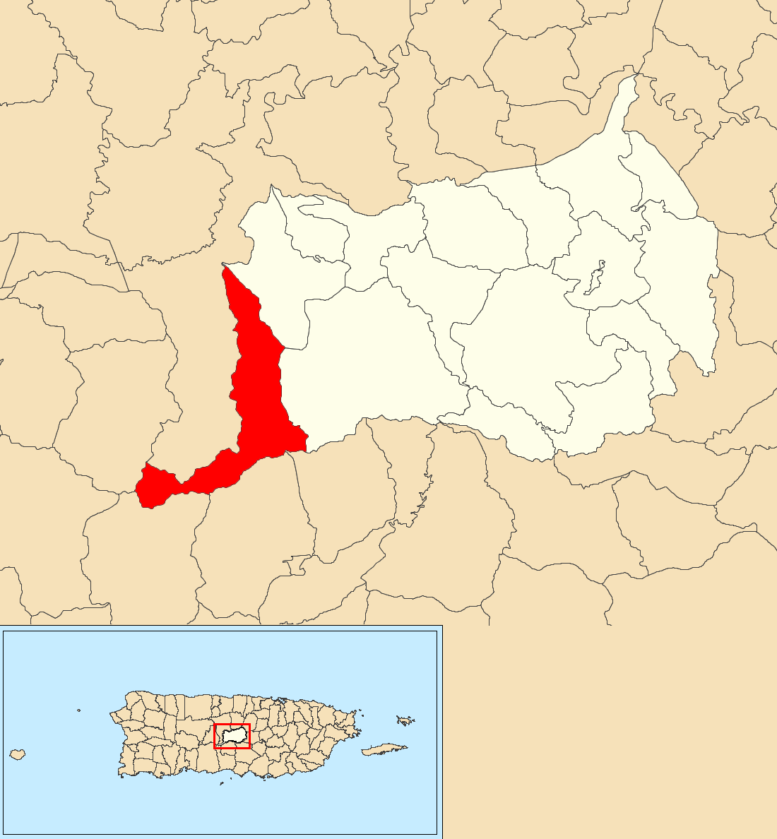 Ala de la Piedra, Orocovis, Puerto Rico locator map